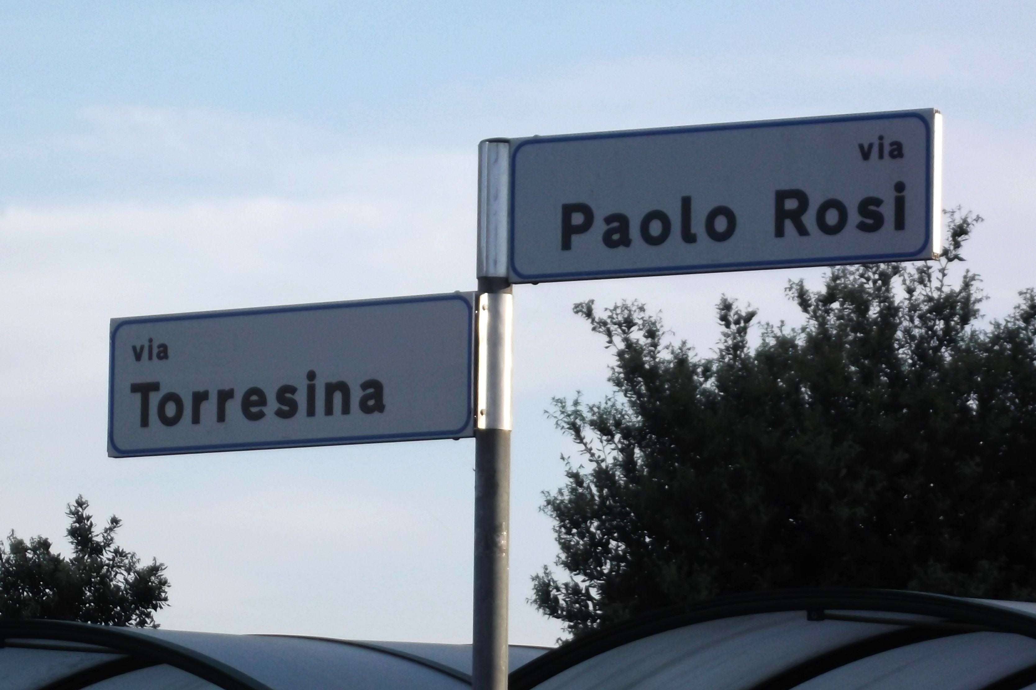 Sign on a street of Rome dedicated to Paolo Rosi (1924-1993), former rugby player and journalist